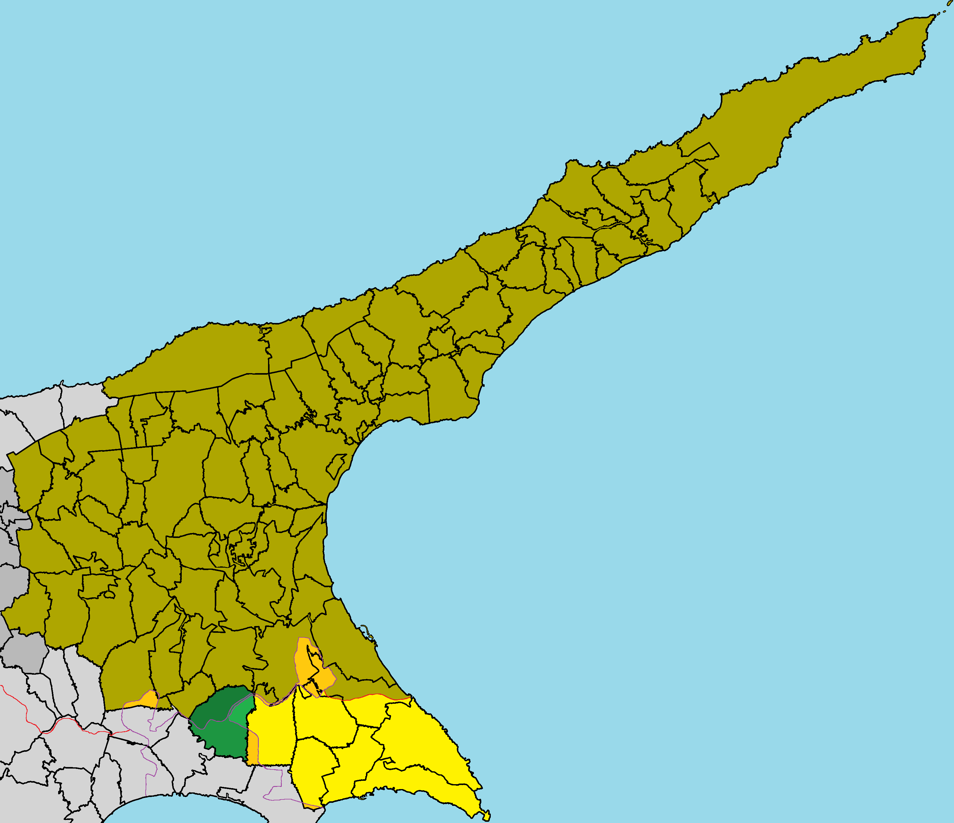 Achna in Famagusta District (de jure).